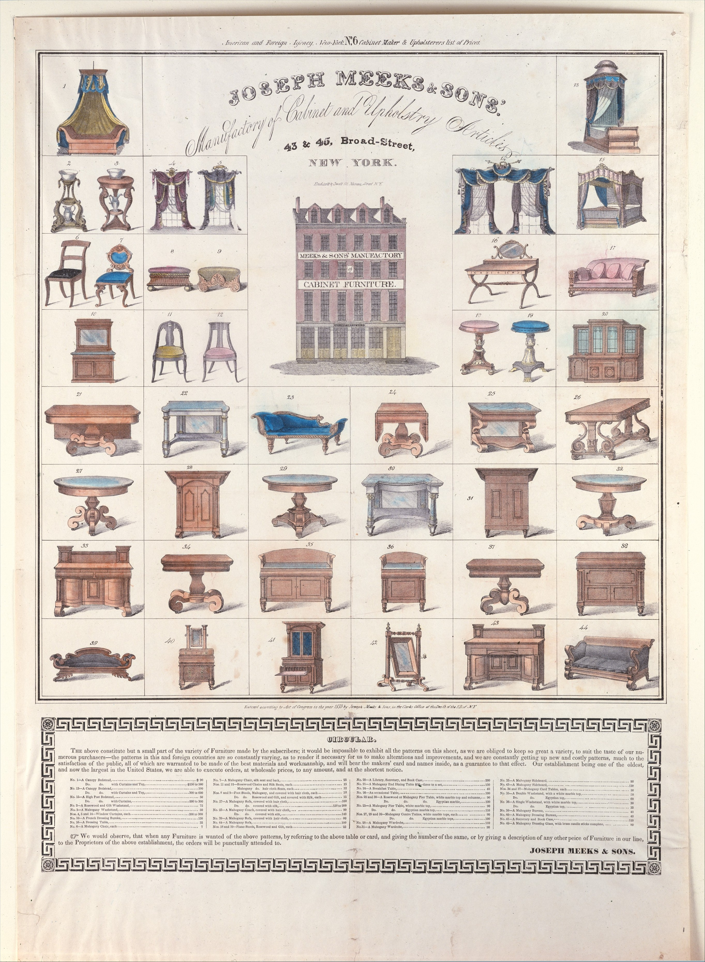 Print ; Ornament and Architecture; Prints